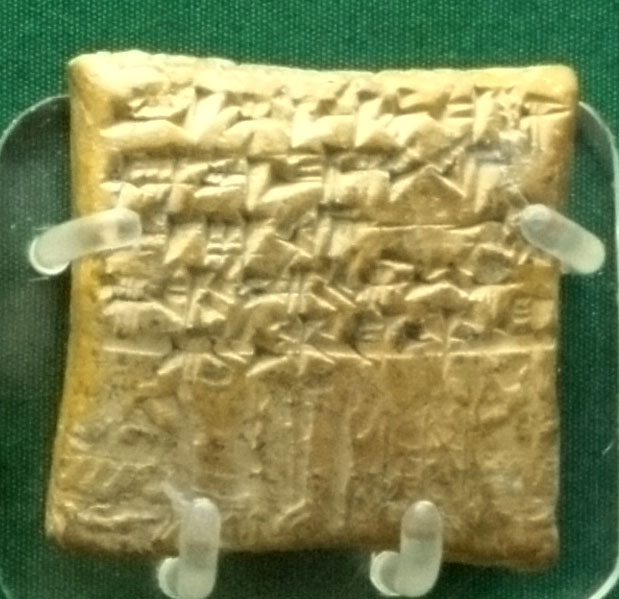 Clay cuneiform tablet showing dues for King Idrimi, 1500BC-1450BC (circa).